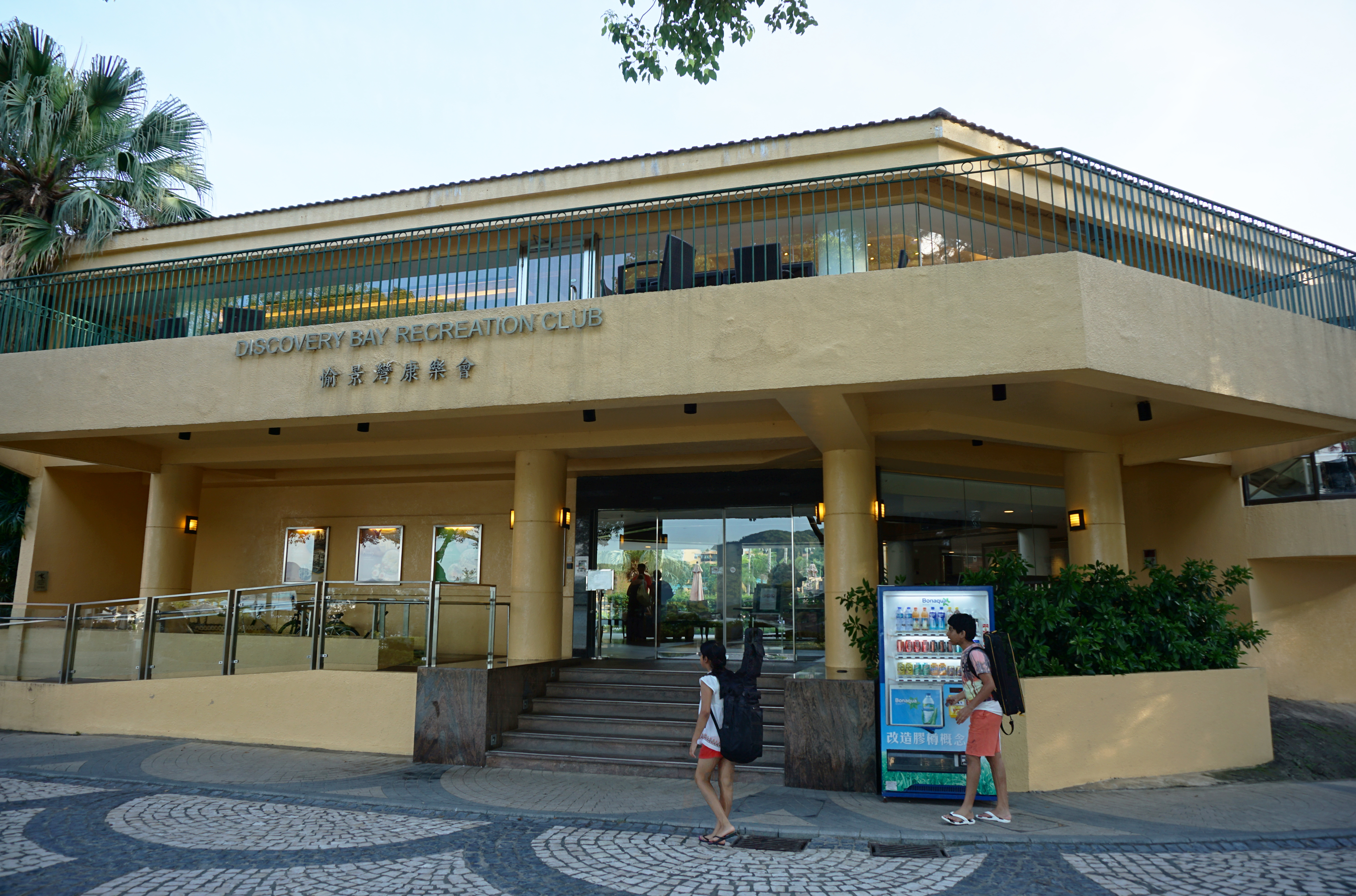 Discovery Bay in Lantau Island, Hong Kong.